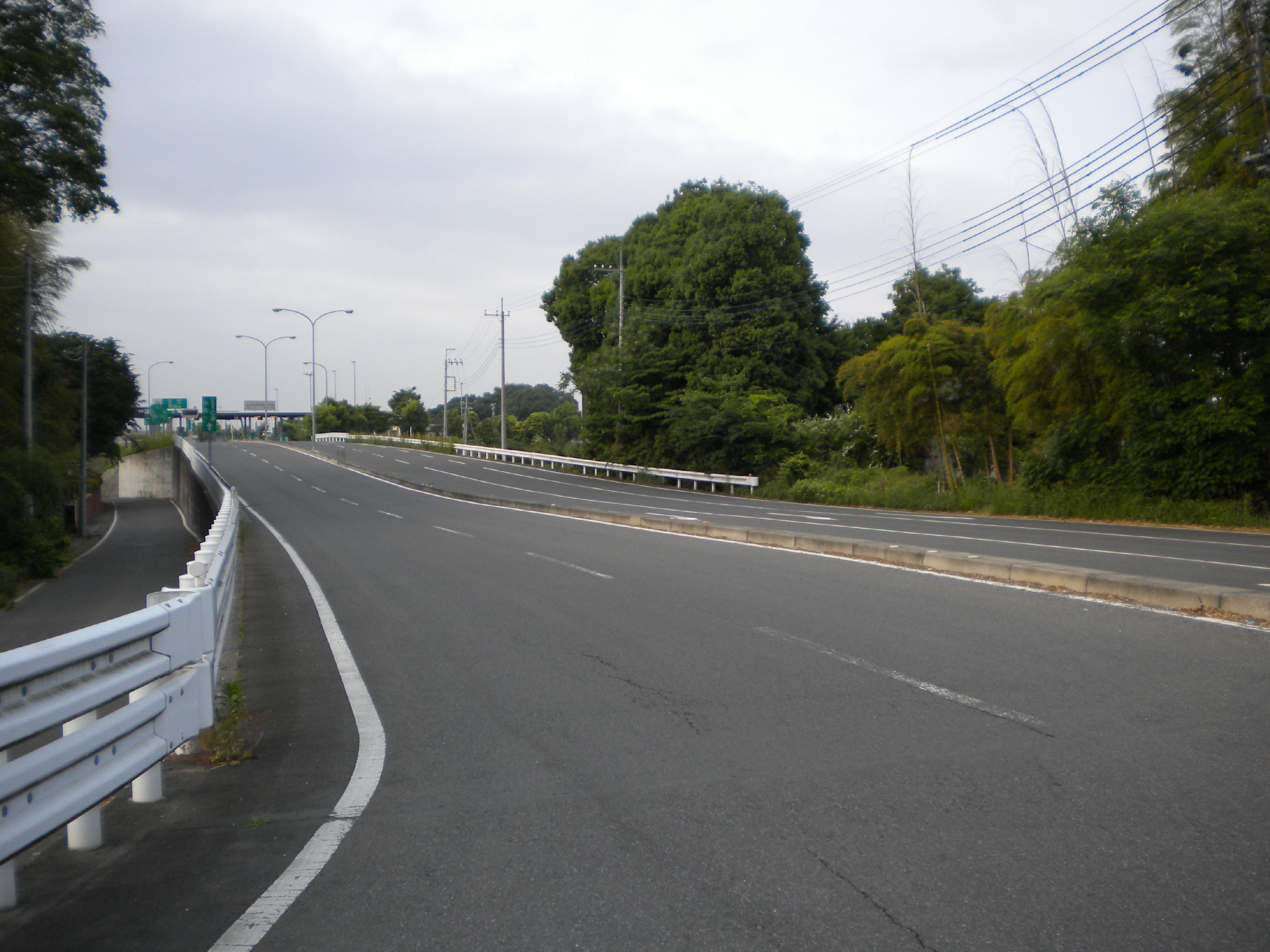 Tochigi prefectural road No.340 on Mibu town